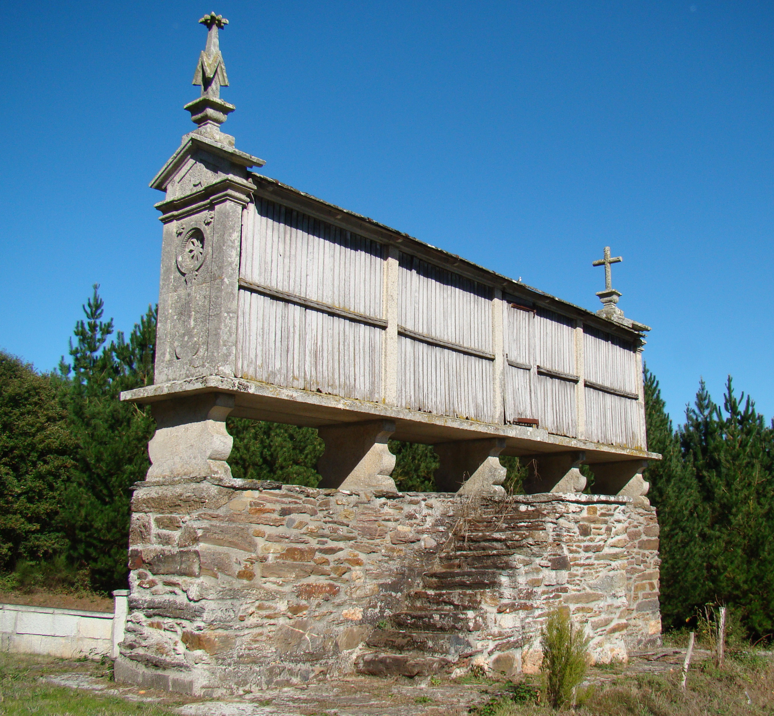 A typical Galician horreo, a granary of stone and wood designed to keep food dry and safe from rats and mice.